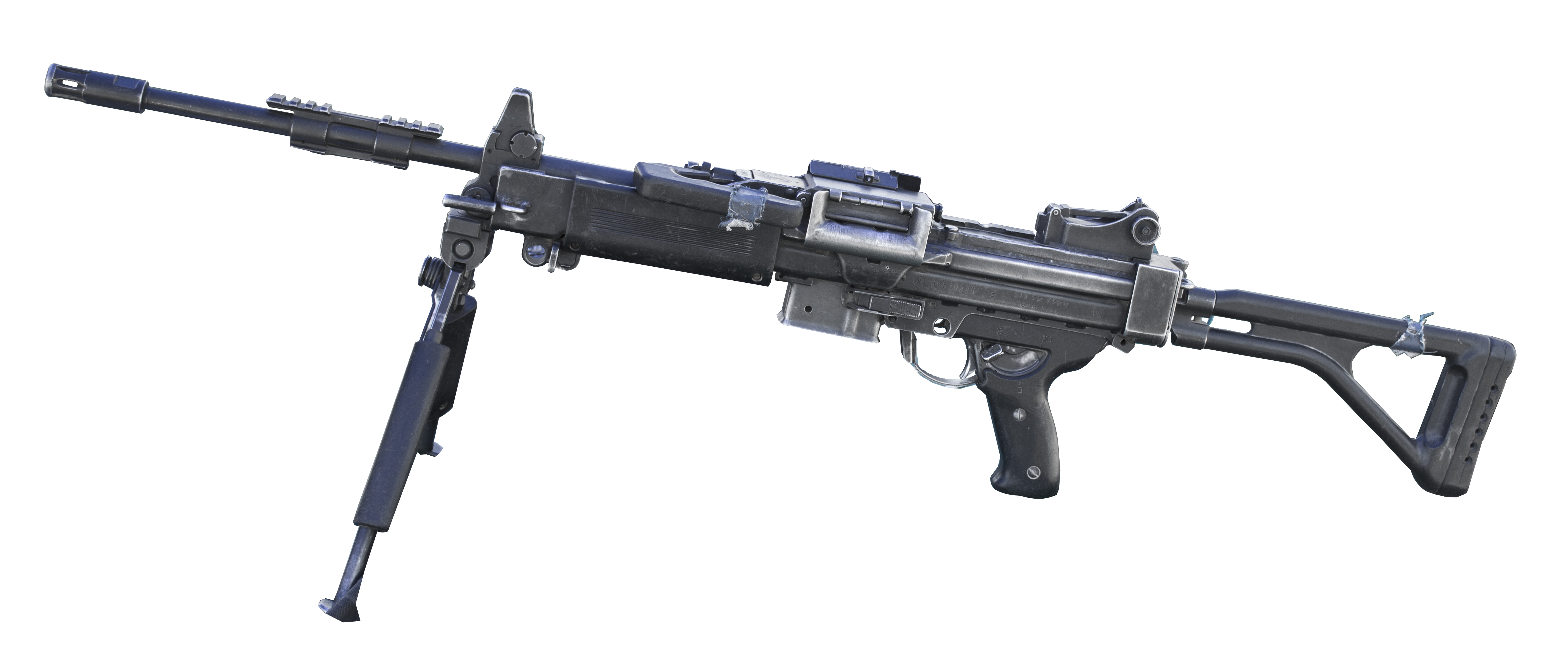 IDF Negev light machine gun, 5.56x45 mm NATO. Israel 68th Independence Day, Ground Army Exhibition, Yad LaShiryon, Israel